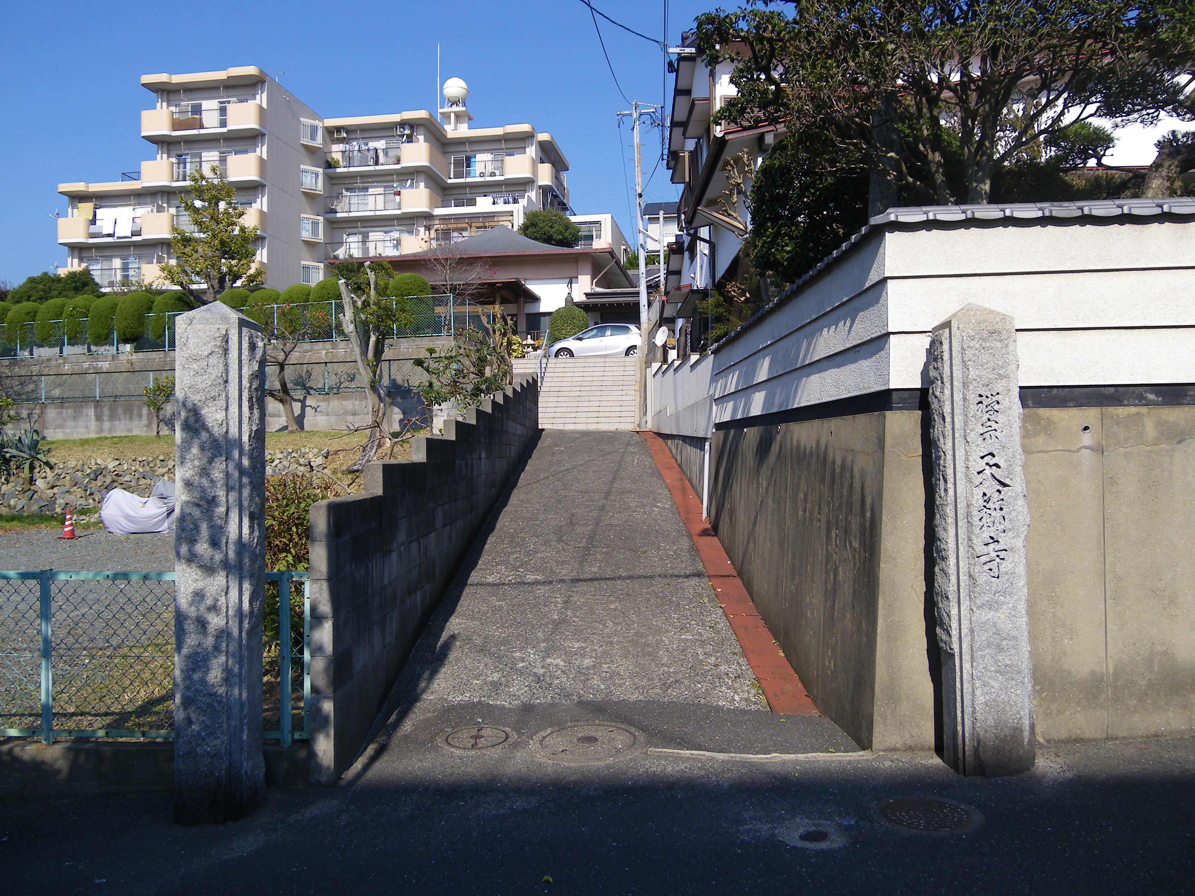 Tenrai temple (Soto School), Tobata, Kitakyushu.